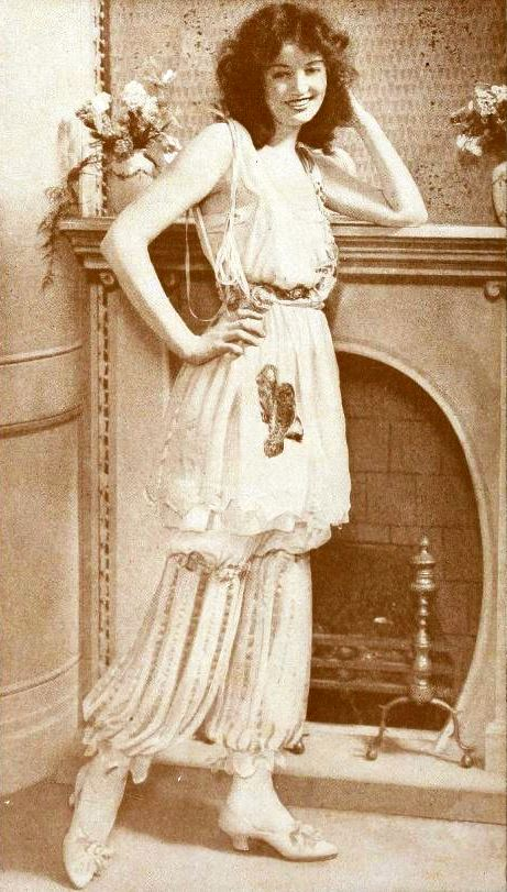 Actress Doris Kenyon promotional for the play The Girl in the Limousine, page 50 of the January 1920 Shadowland. She is wearing her "Kenyon pajamas."